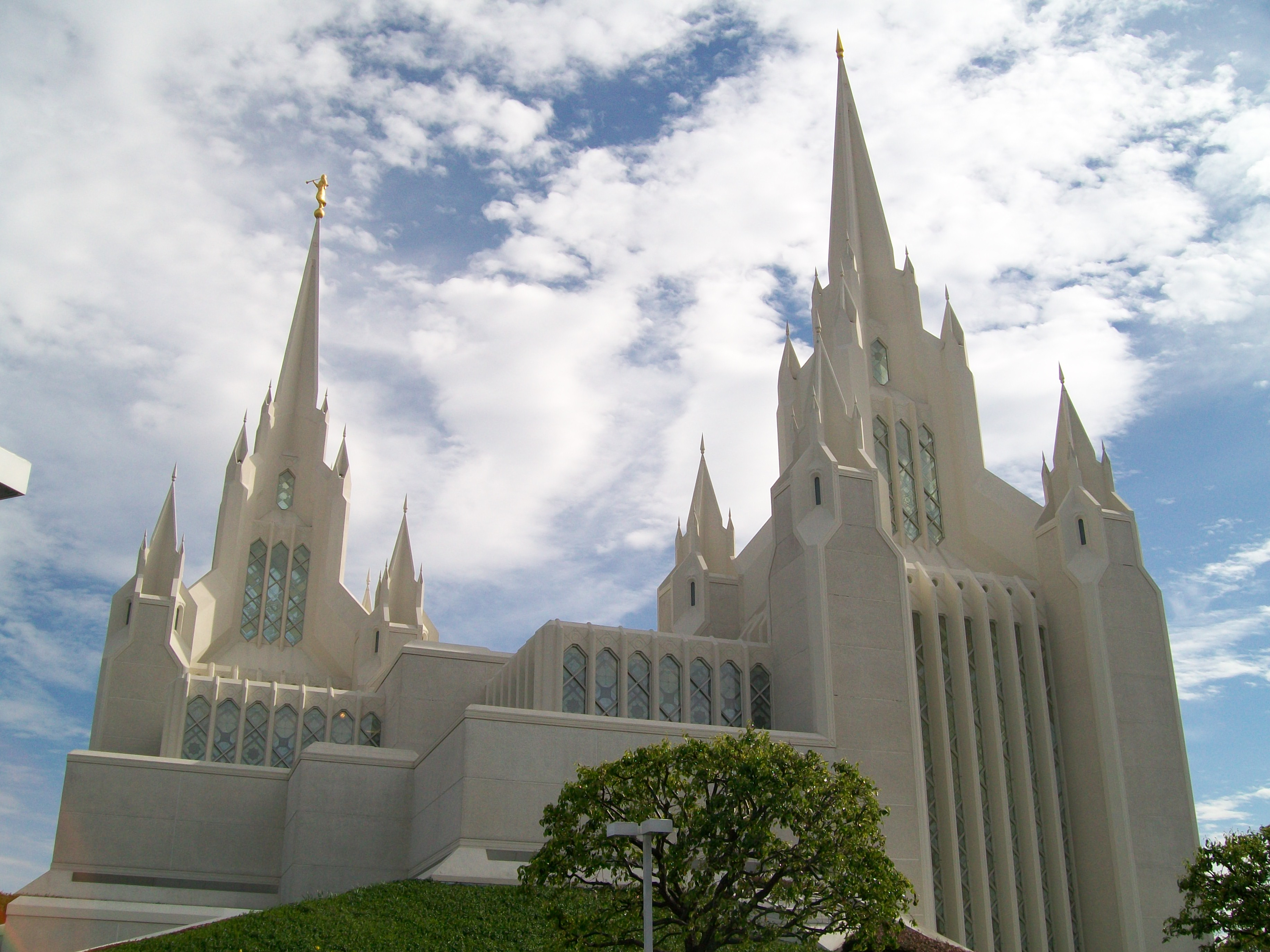 The San Diego California Temple of The Church of Jesus Christ of Latter-day Saints.